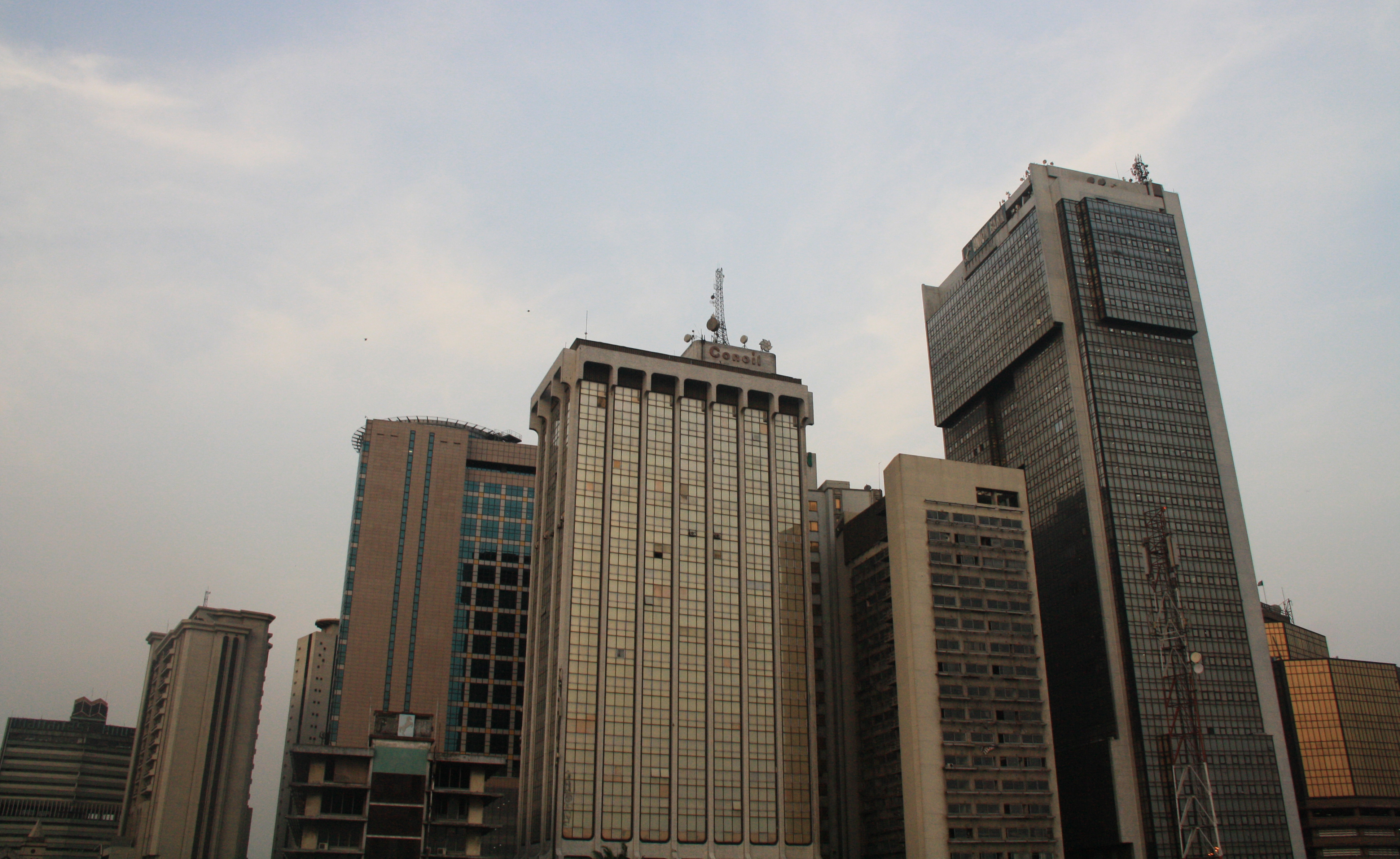 Buildings in Lagos, Nigeria